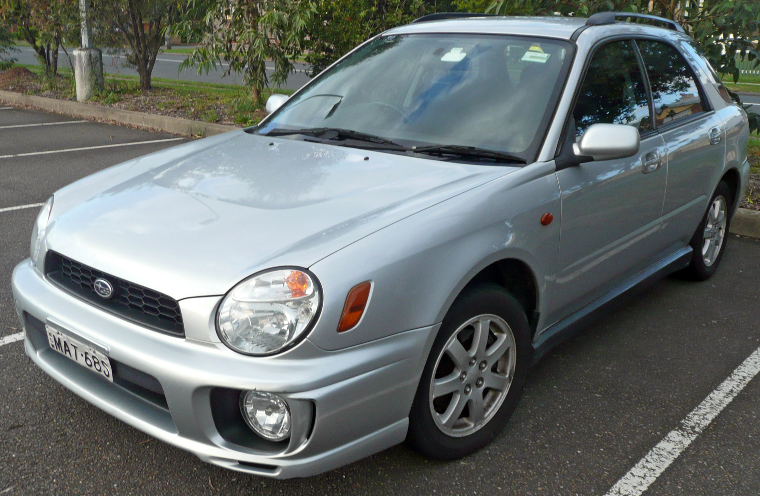 2000–2002 Subaru Impreza (GG9) RX hatchback. Photographed in Sutherland, New South Wales, Australia.